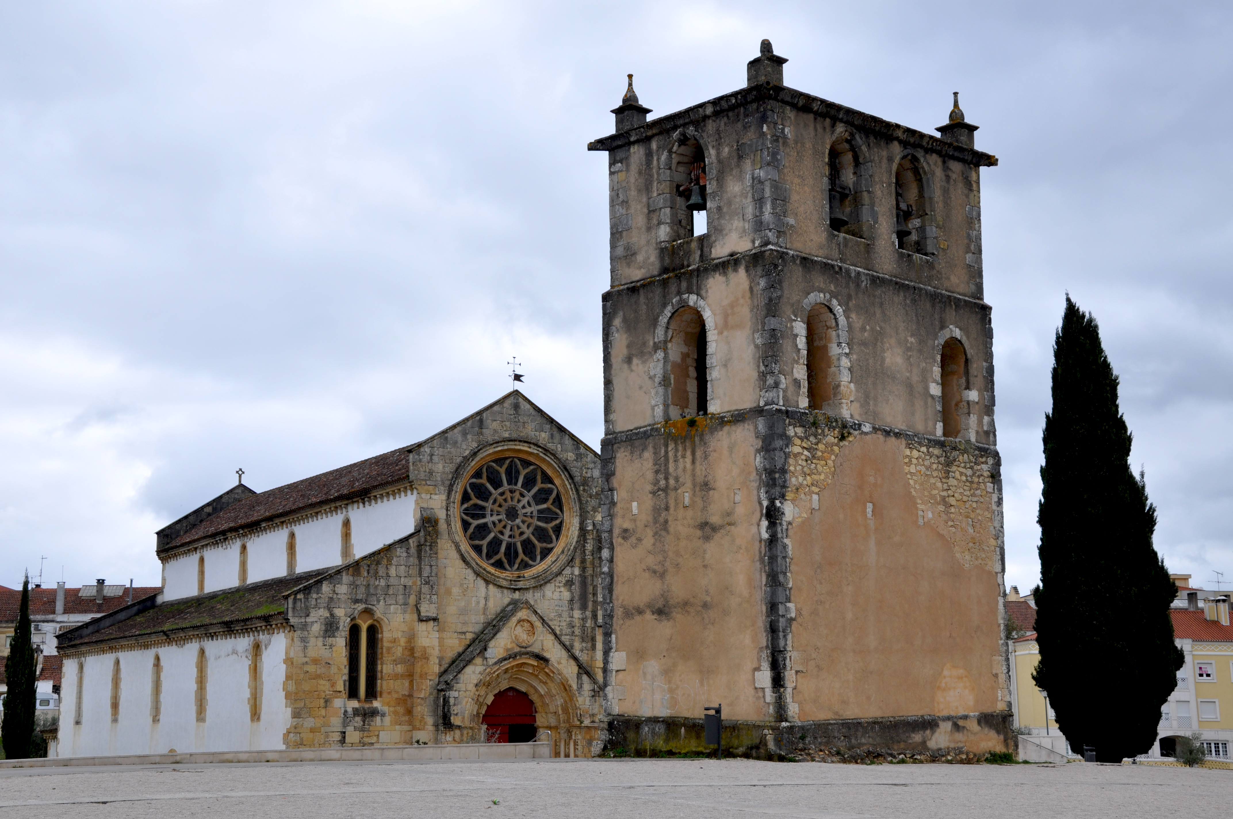 The church was built in the second half of the 12th century by the provincial master of the Order of the Knights Templar in Portugal, Gualdim Pais. The current building is mostly the result of a reconstruction carried out in the 13th century in early Gothic style.